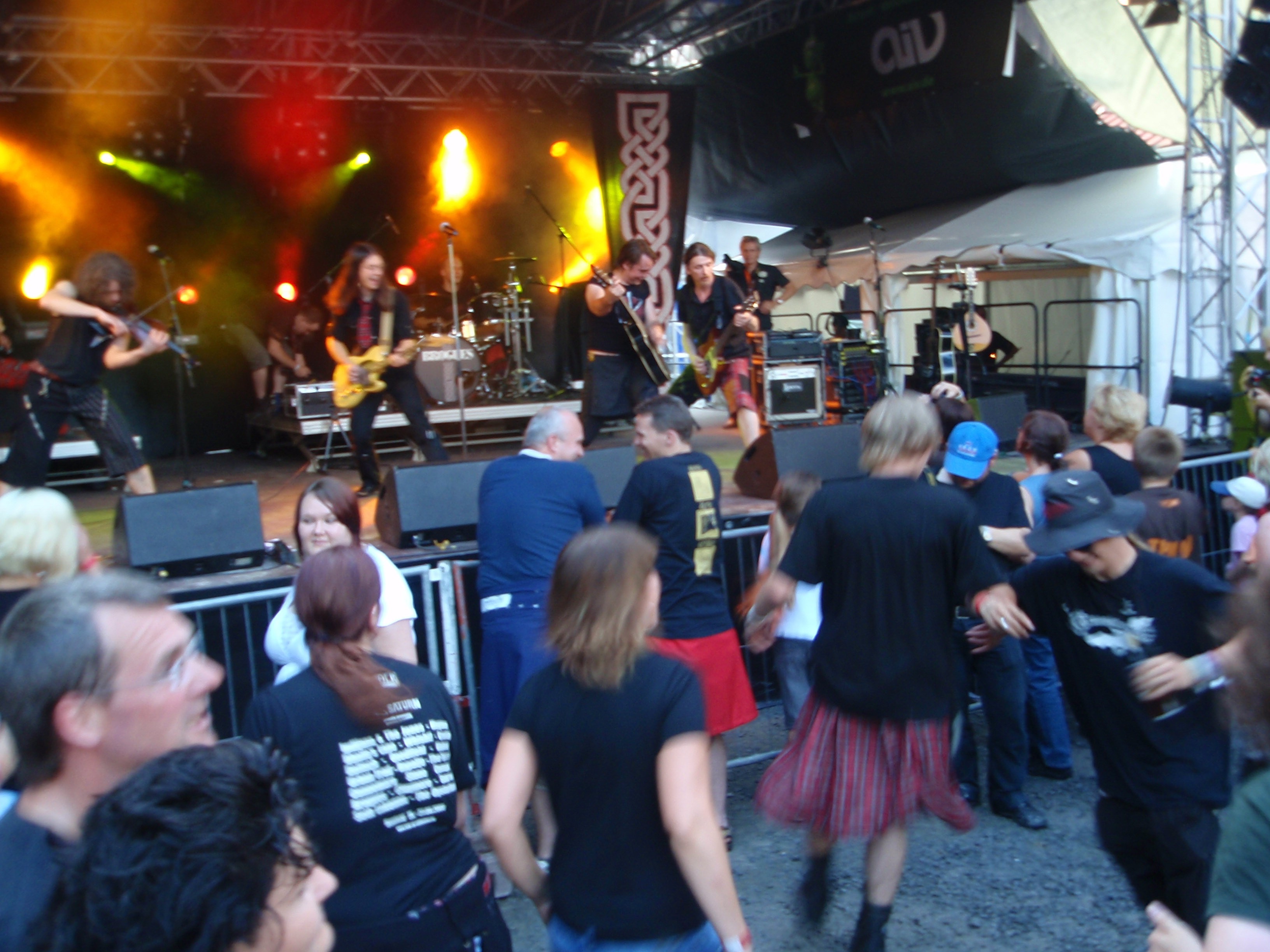 "Brogues" (D) at the "Folk im Schlosshof" festival 2009 in Bonfeld / Germany